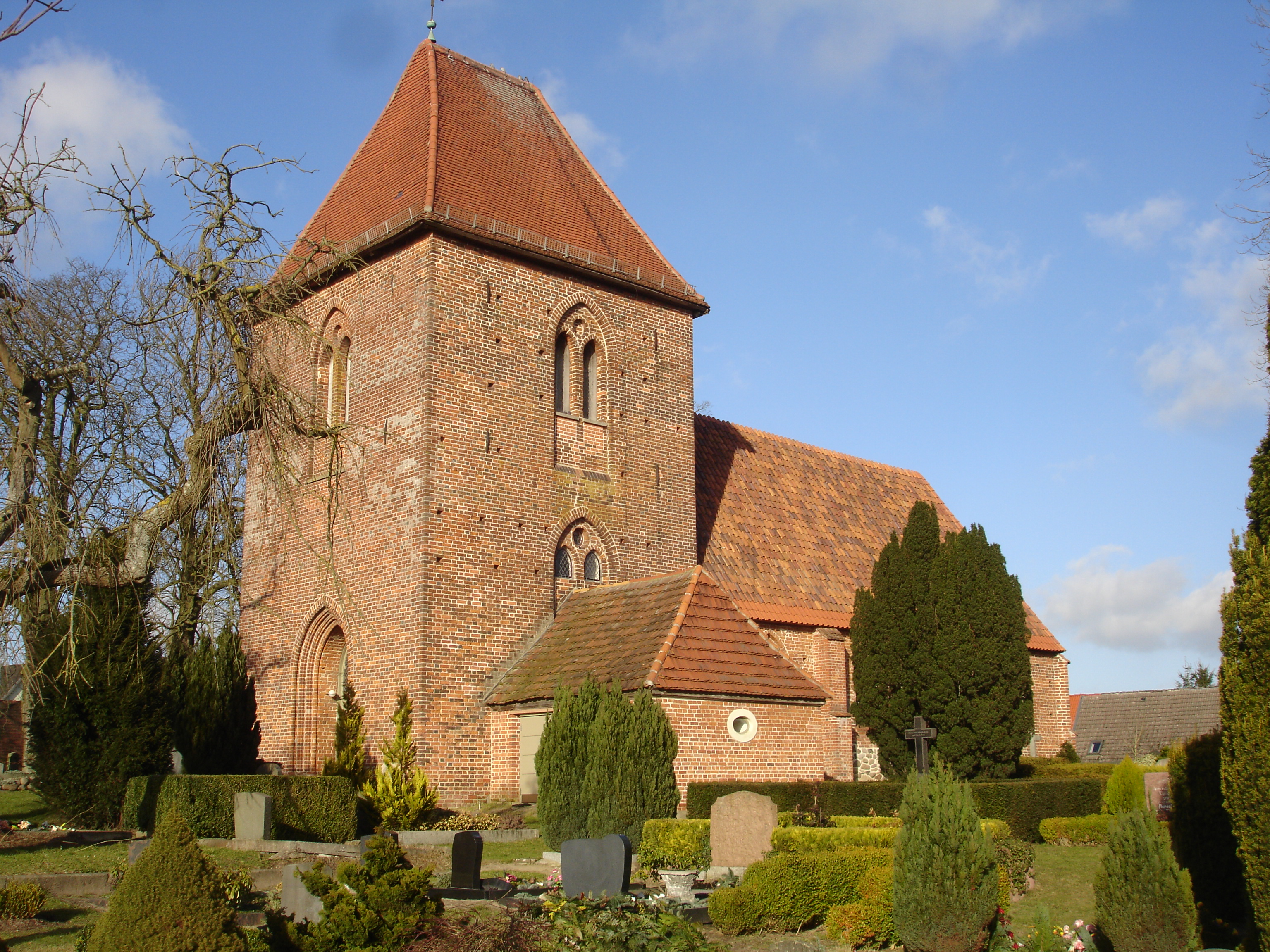 Church in Groß Brütz, district Nordwestmecklenburg, Mecklenburg-Vorpommern, Germany